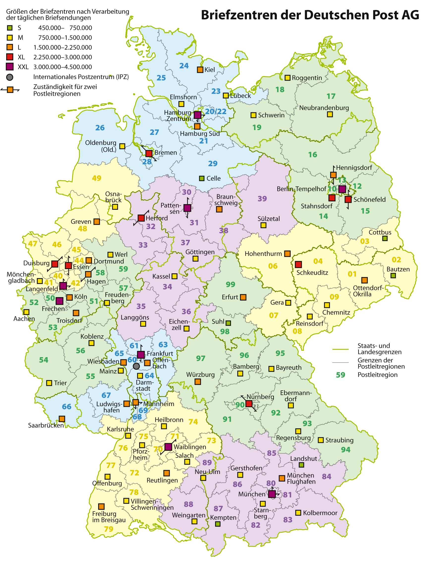 Map of the delivery centres of Deutsche Post